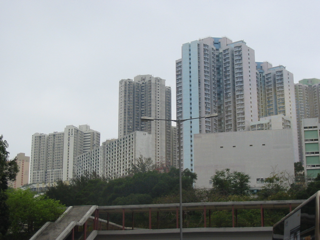 Kwai Shing East Estate overview. Block 12 which used as interim housing could be seen.